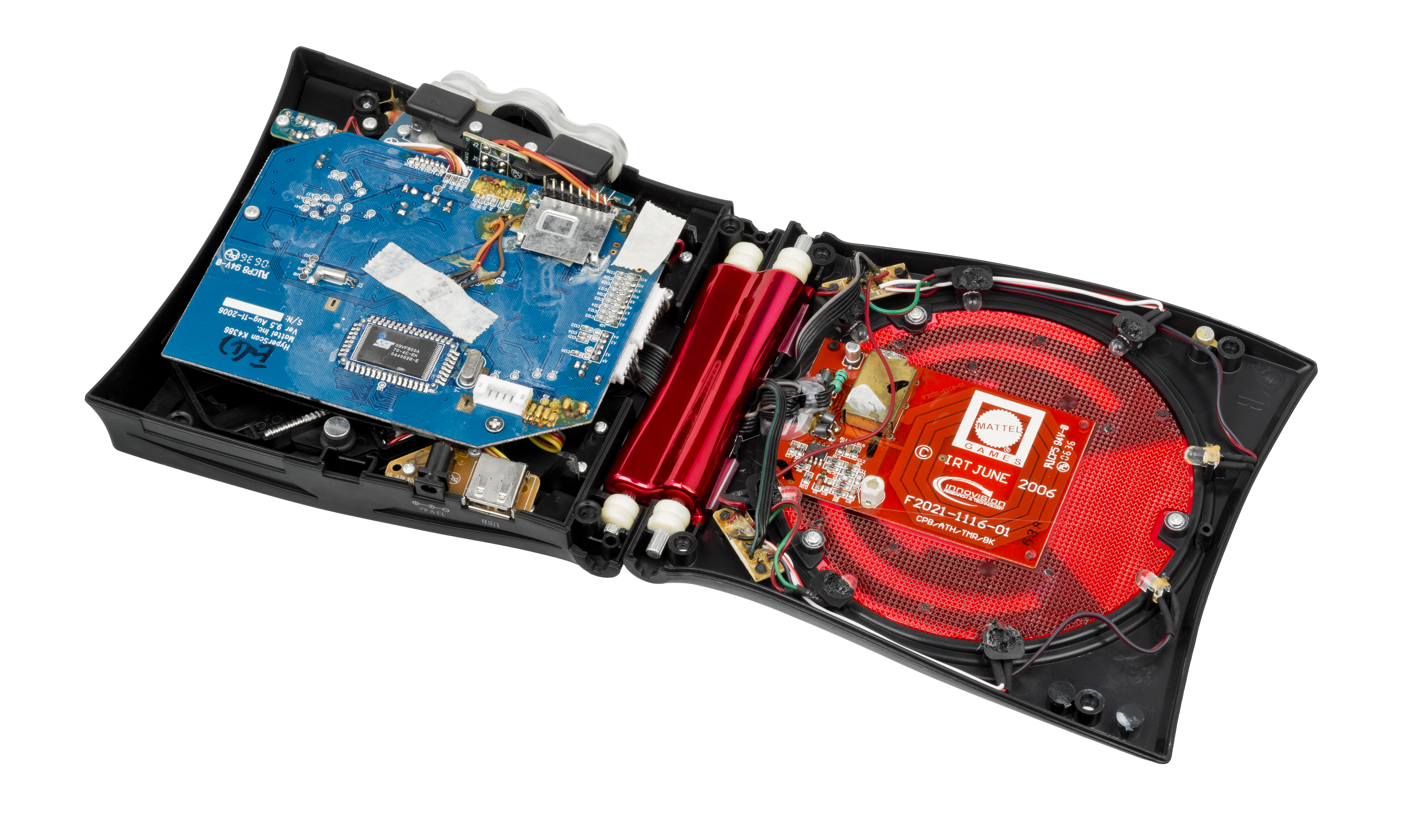 The Mattel HyperScan (shown open and with the top casing removed), a video game console released in 2006. A low-cost ($69.99 at launch) and low-powered system, this console was aimed more at the toy market than as an actual video game system. The main feature of the console was its use of RFID collectible cards that allowed for extra characters and abilities in its games. Few games were sold, and the system was discontinued by Mattel within a year.